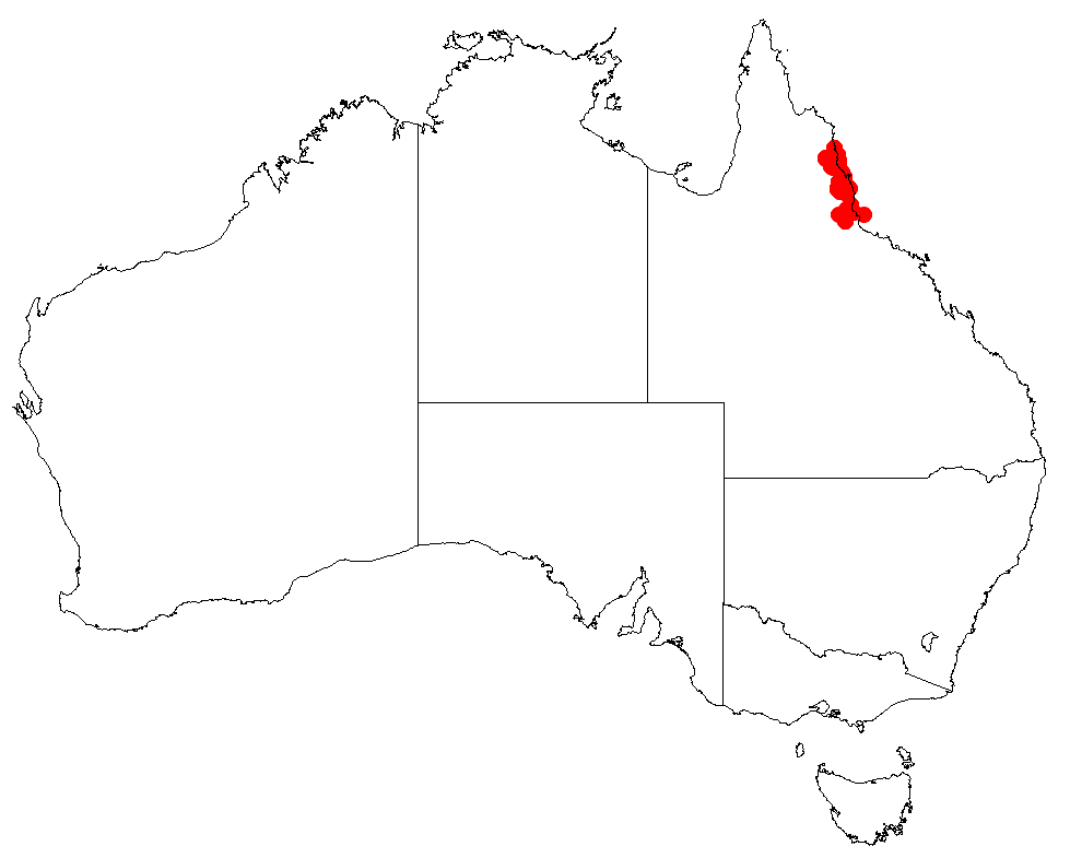 Parsonsia langiana Occurrence data for Australia from Australasian Virtual Herbarium downloaded 22 December 2018